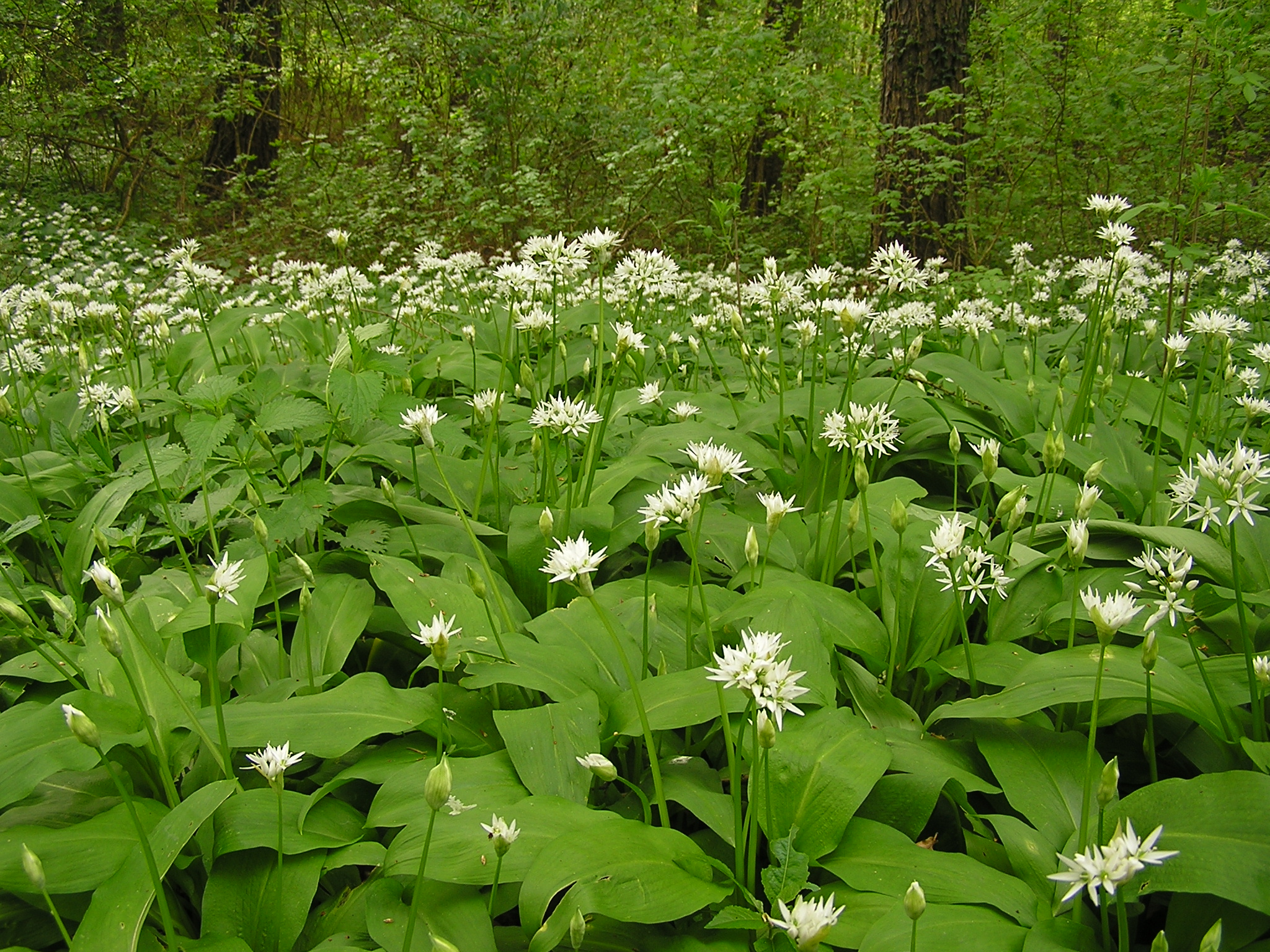 Ransoms in the municipal forest of Bad Vilbel